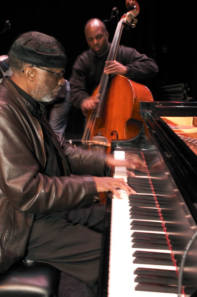 A photo of Ahmad Jamal performing with James Cammack.